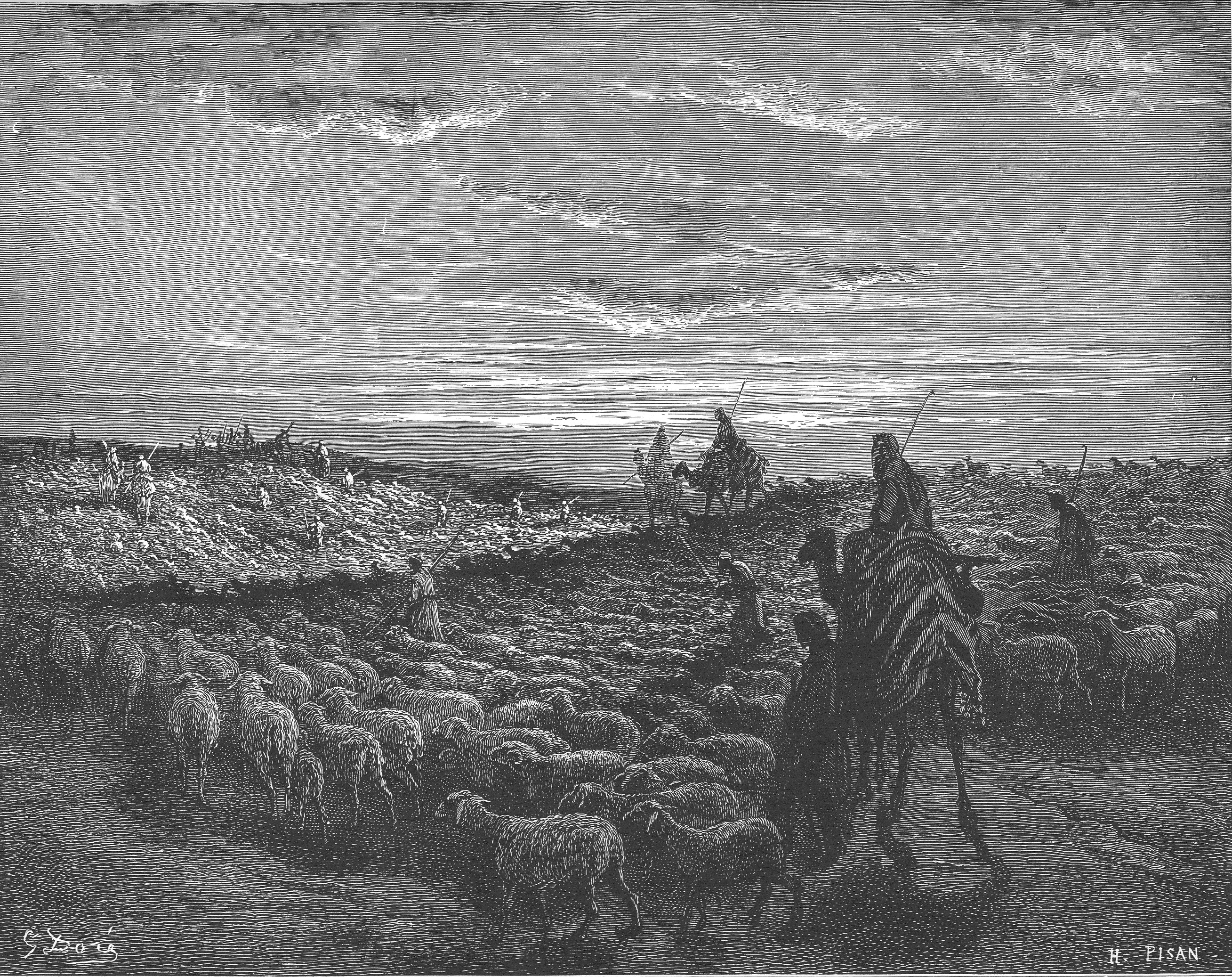 Abraham Goes to the Land of Canaan (Gen. 12:1-6)